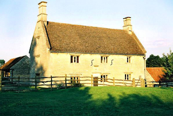 Woolsthorpe Manor, Lincolnshire, UK, birthplace of Sir Isaac Newton. Now owned by the National Trust and open to the public from Spring to Autumn. Image Taken Summer 2002 (in the evening) By Iain Alexander, with a Canon EOS SLR camera and Fuji Superia Film @200 ISO Copyright is held by Iain Alexander and permission is giving to use this image on Wikipedia website. Permission to use on other (non-profit) uses (including other website) is given (as per GFDL). Commercial use of this image by agreement only